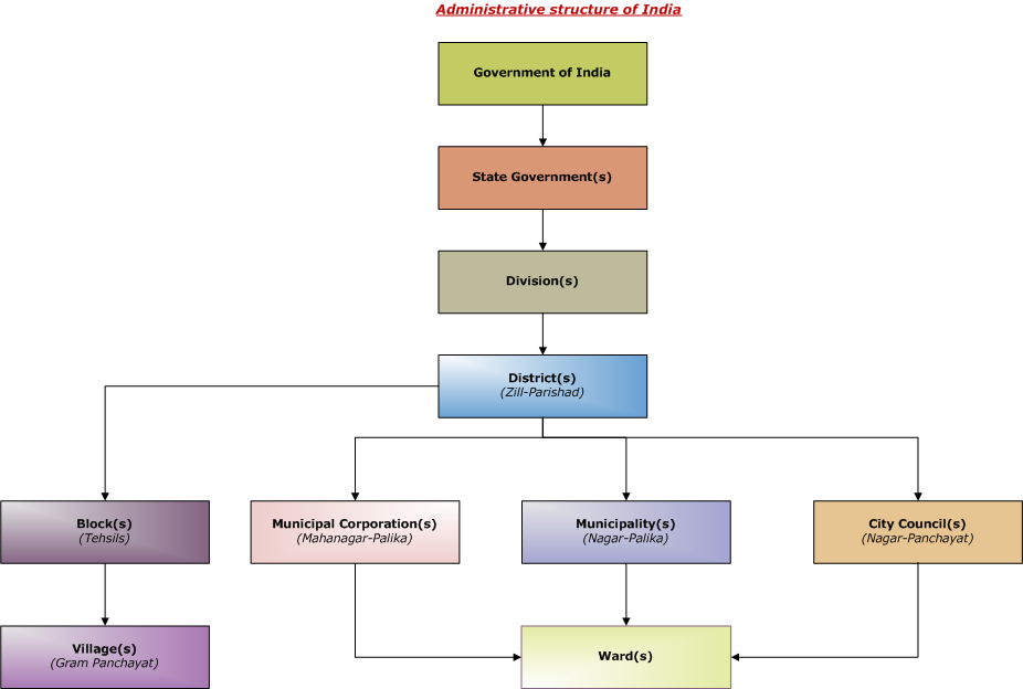 Image to describe the Setup of Administrative entities of India